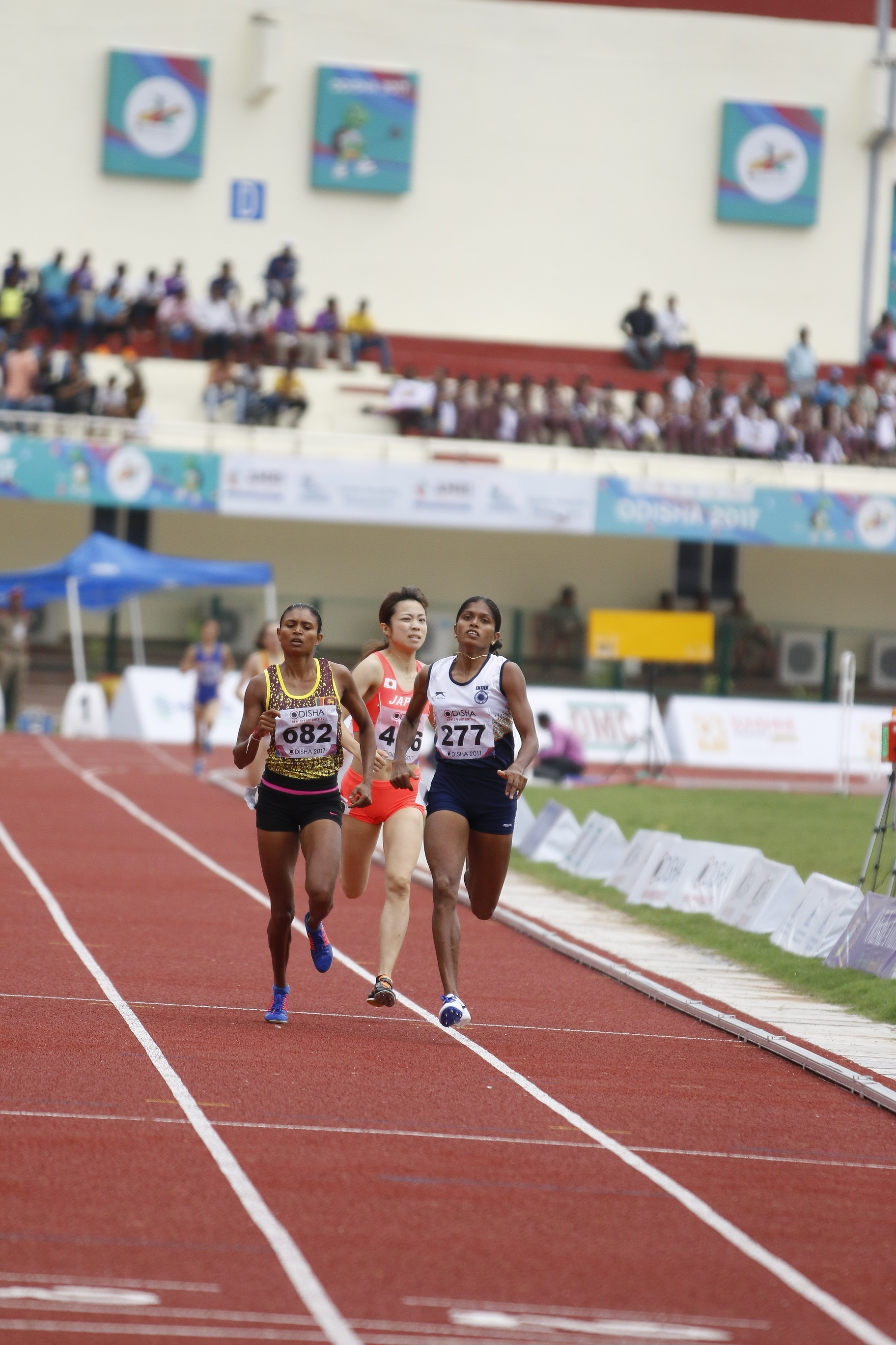 Tintu Lukka. picture taken at the 2017 Asian Athletics Championships in July 2017 in Bhubaneshwar, Nimali Waliwarsha Konda Liy is 682, FUMIKA OMORI is 416